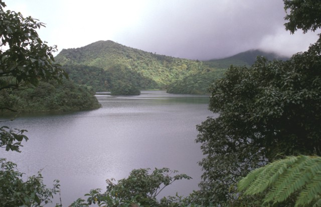 Freshwater Lake (L'Etang) lies in the moat between Micotrin lava dome and the eastern wall of the Wotten Waven caldera, partially visible in the background. The 7 x 4.5 x wide caldera is elongated in an SW-NE direction, and it extends on the SW to near the capital city of Roseau. The two coalesced lava domes of Micotrin straddle the NE rim of the caldera. Strong geothermal activity persists in the caldera, the most prominent of which lies near the village of Wotten Waven along the River Blanc and contains numerous bubbling pools and fumaroles.